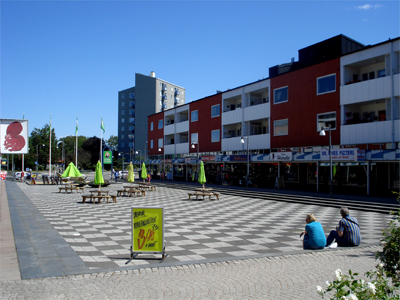 View of the Doktor Fries torg in Guldheden, Göteborg, Sweden